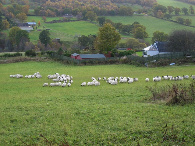 Sheep at Ardendrain, Glen Convinth, Invernesshire